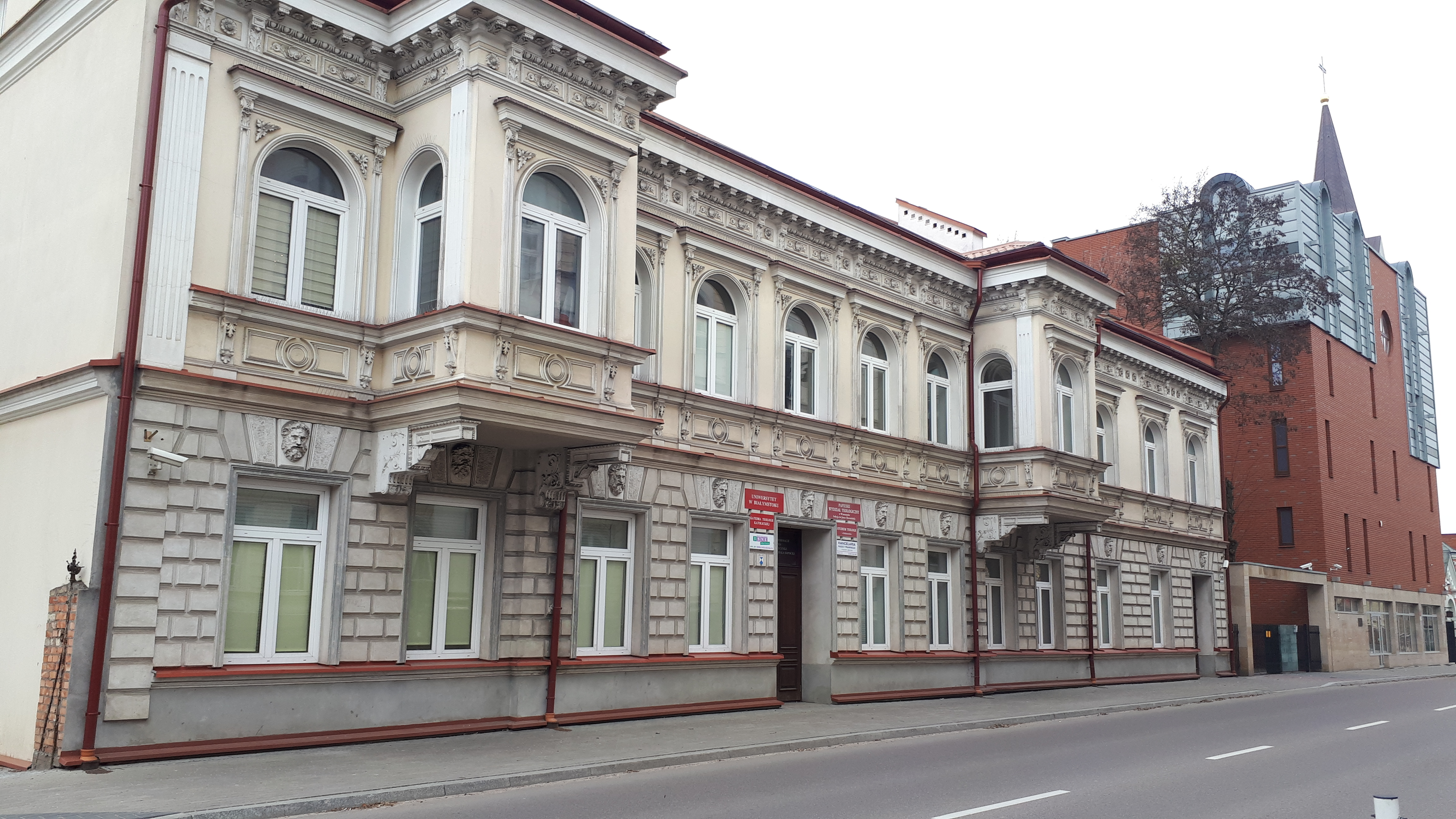 50 Warszawska Street in Białystok